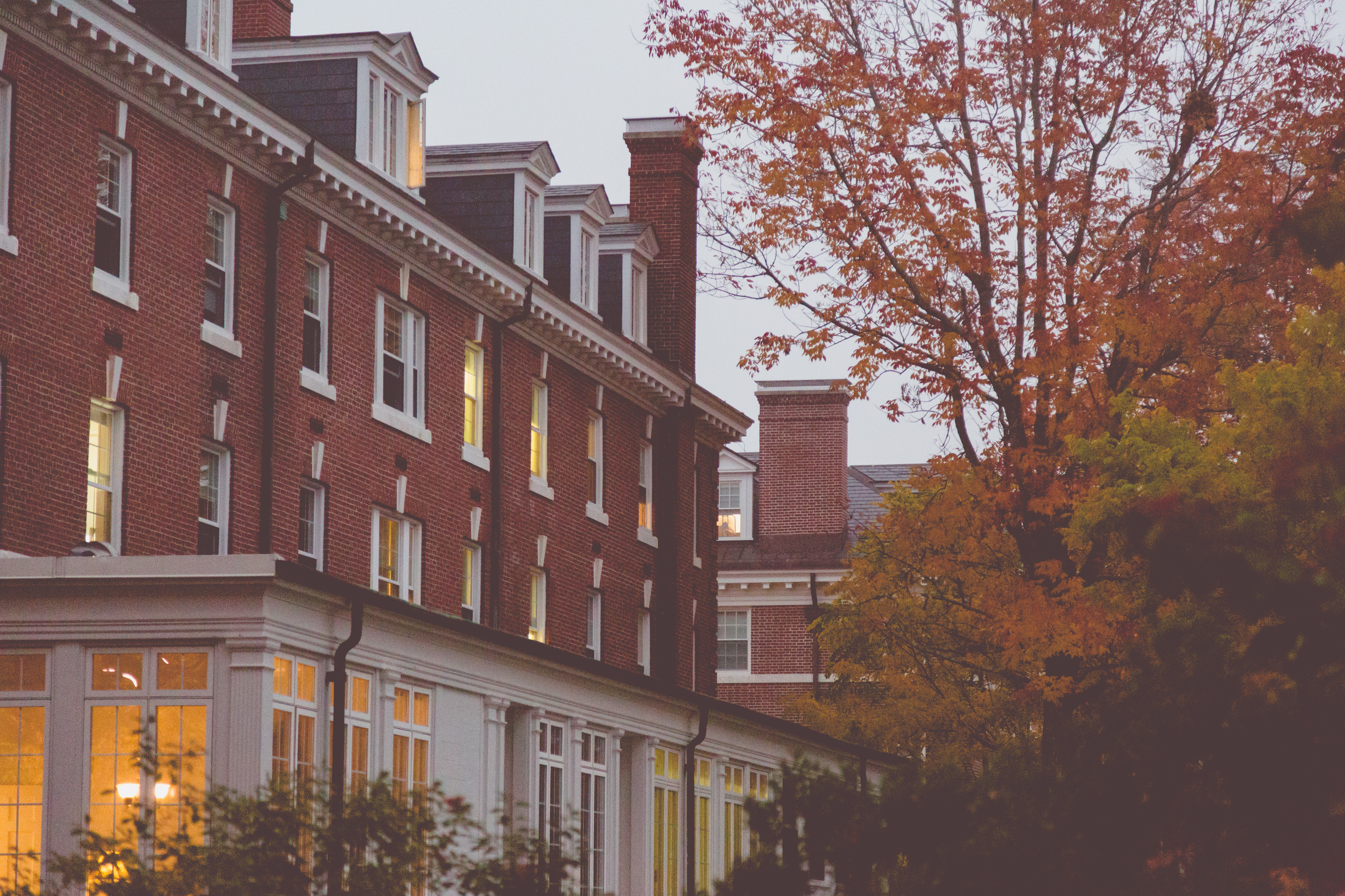 Phillips Exeter Academy, Exeter, New Hampshire